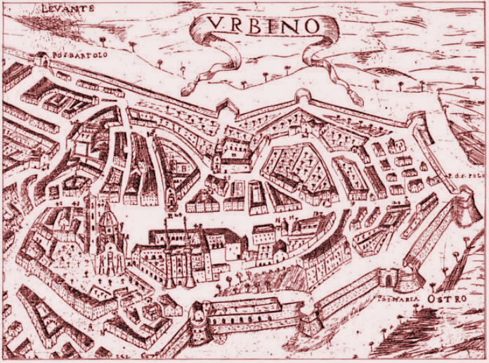 Antique plan of Urbino (detail) by Tommaso Luci, published in 1689